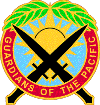 US Army Special Operations Command Pacific DUI